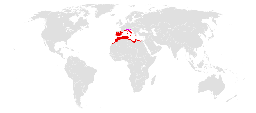 Tarentola mauritanica range map Native range Introduced range